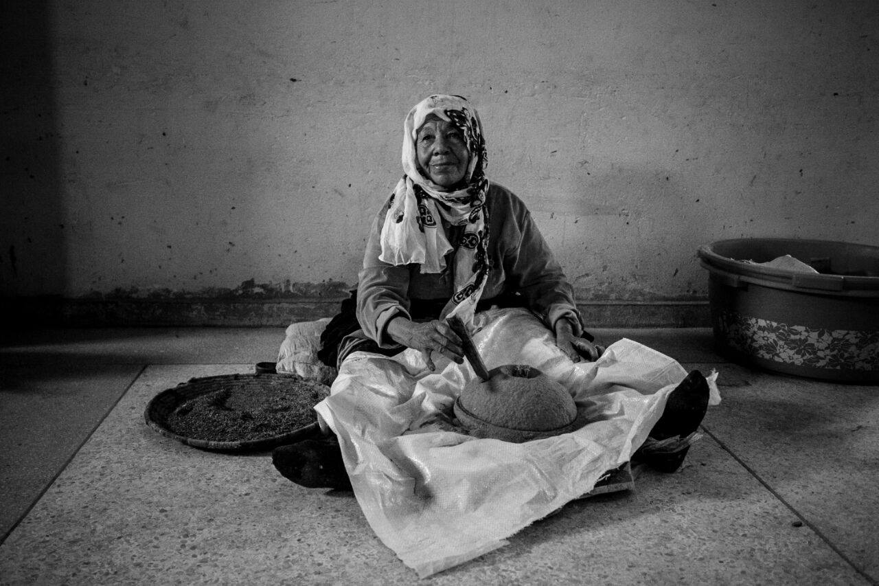 A Moroccan Worker is squeezing argan oil This is an image of "African people at work" from Morocco